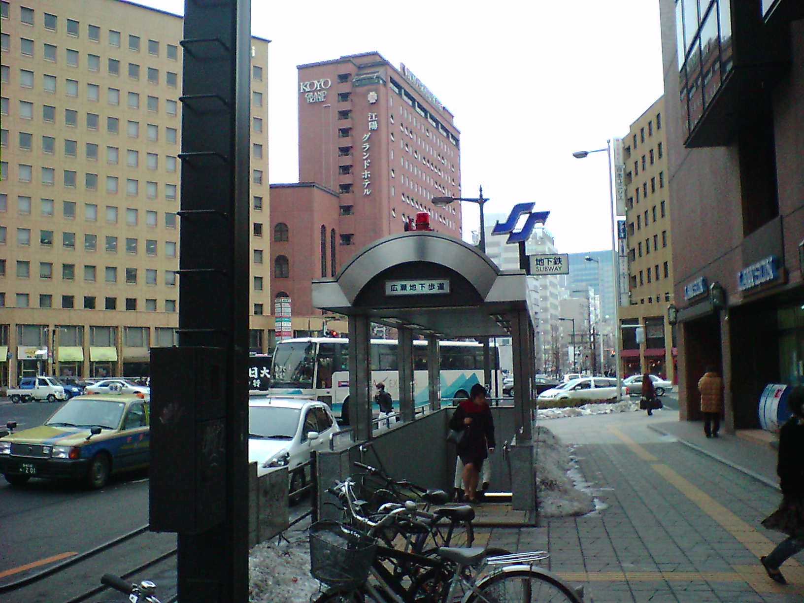 Hirose-Douri Station of the Sendai Subway. Sendai, Miyagi prefecture, Japan.